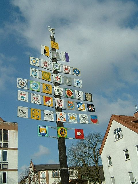 A big sign in Frankfurt-Schwanheim with the Symbol (a swan) on the top and the names of all clubs in this Frankfort quarter. Place:End of the tramway , near the Stadtwald. self-made on march 12th , 2006